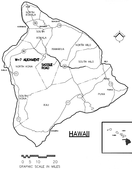 Hawaii State Route 200, better known as the "Saddle Road", is the only paved route across the island of Hawaii between Mauna Kea and Mauna Loa. This is a map showing original alignment and a new proposal in 2009.